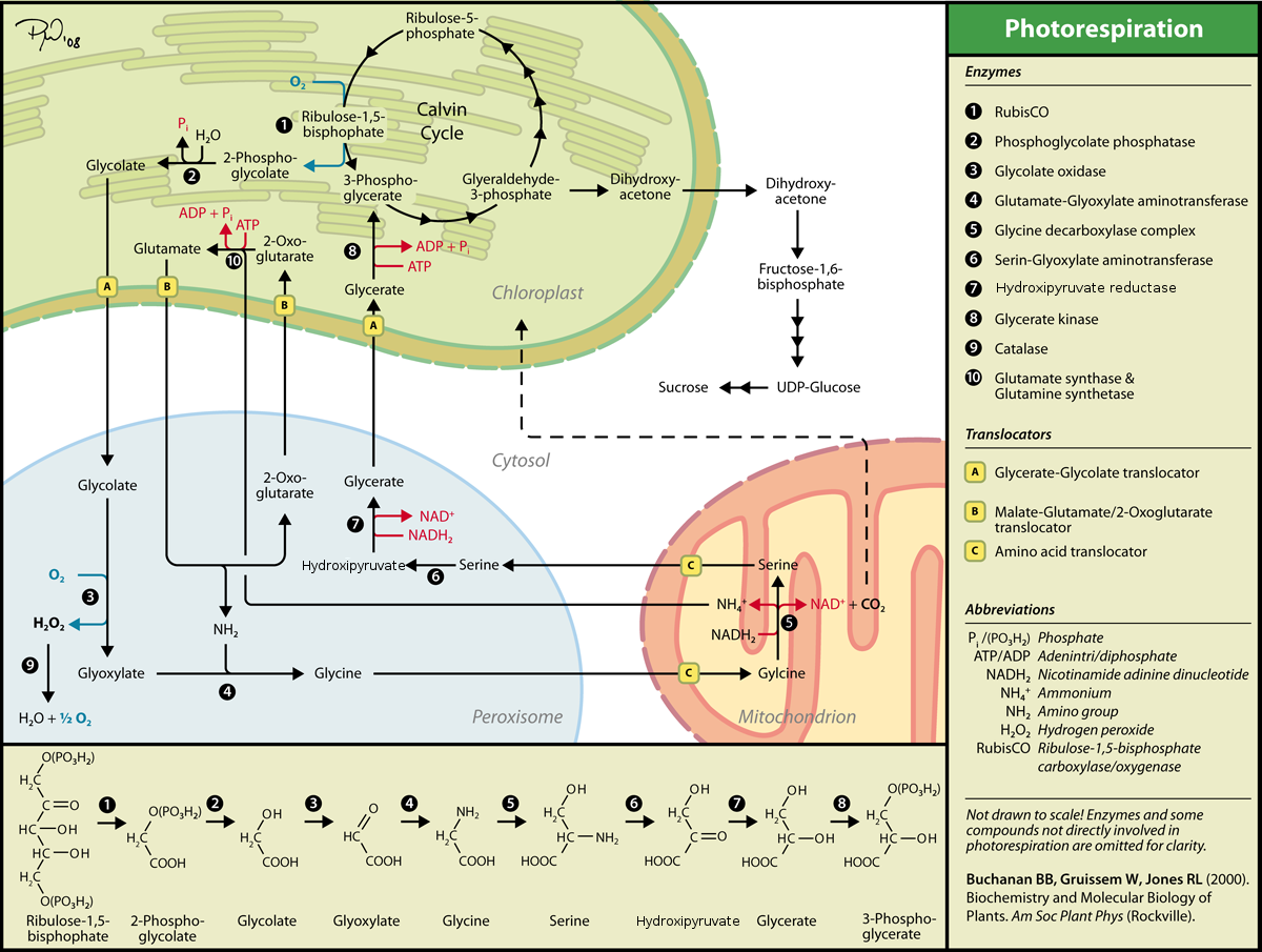 Photorespiration in C3-plants. How plants cope with the oxygenase reaction of RuBisCO.